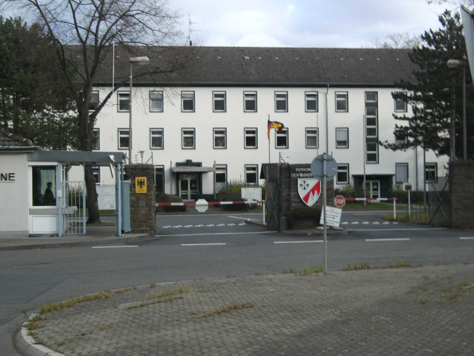 german Armed Forces Personal Department Cologne (Mudra Kaserne)